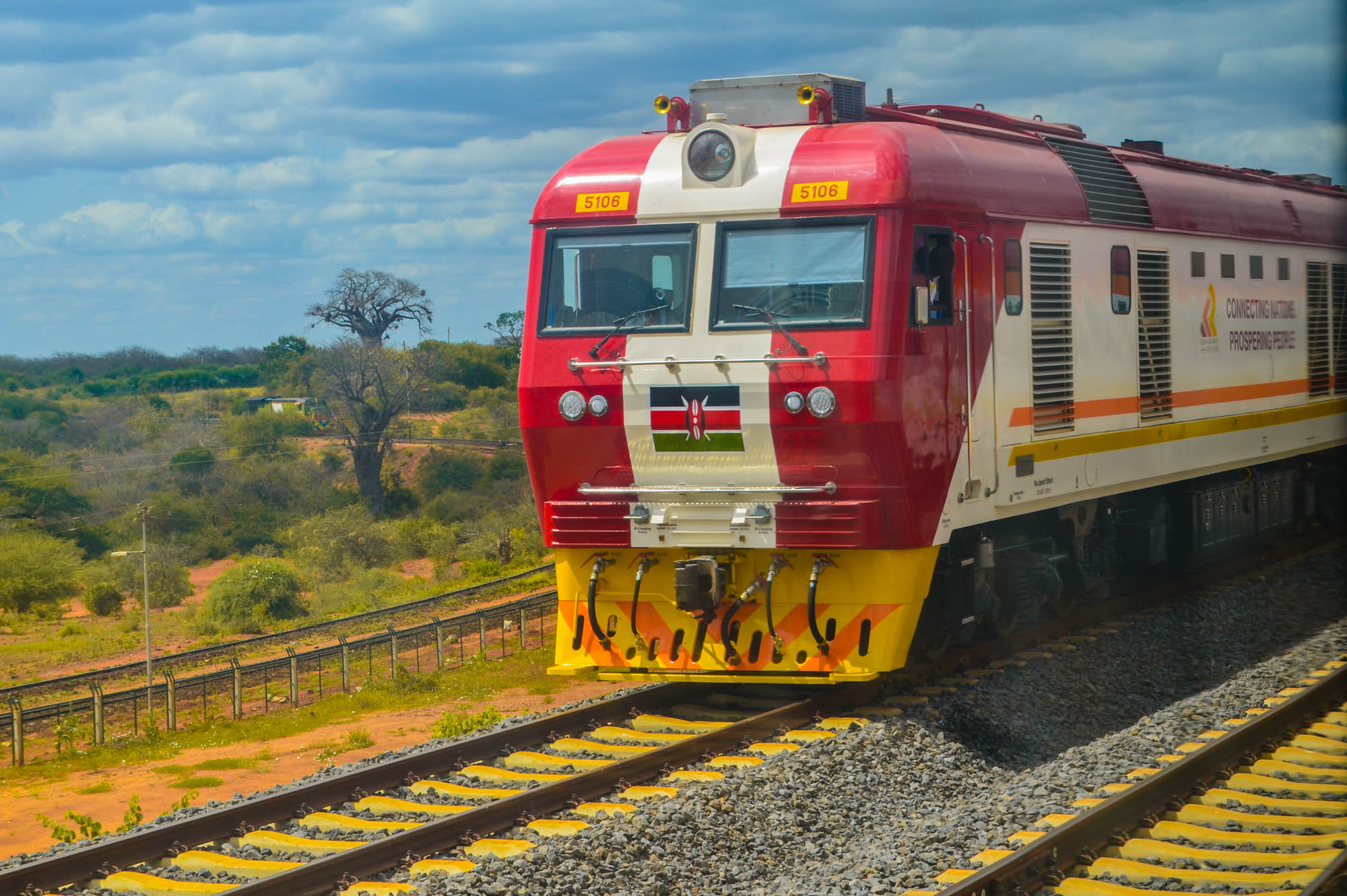 Passenger trains called the Madaraka Express now take just 4 hours 30 minutes, operating at up to 120 km/h (75 mph) with 1,200 seats per train This is an image with the theme "Africa on the Move or Transport" from: Kenya